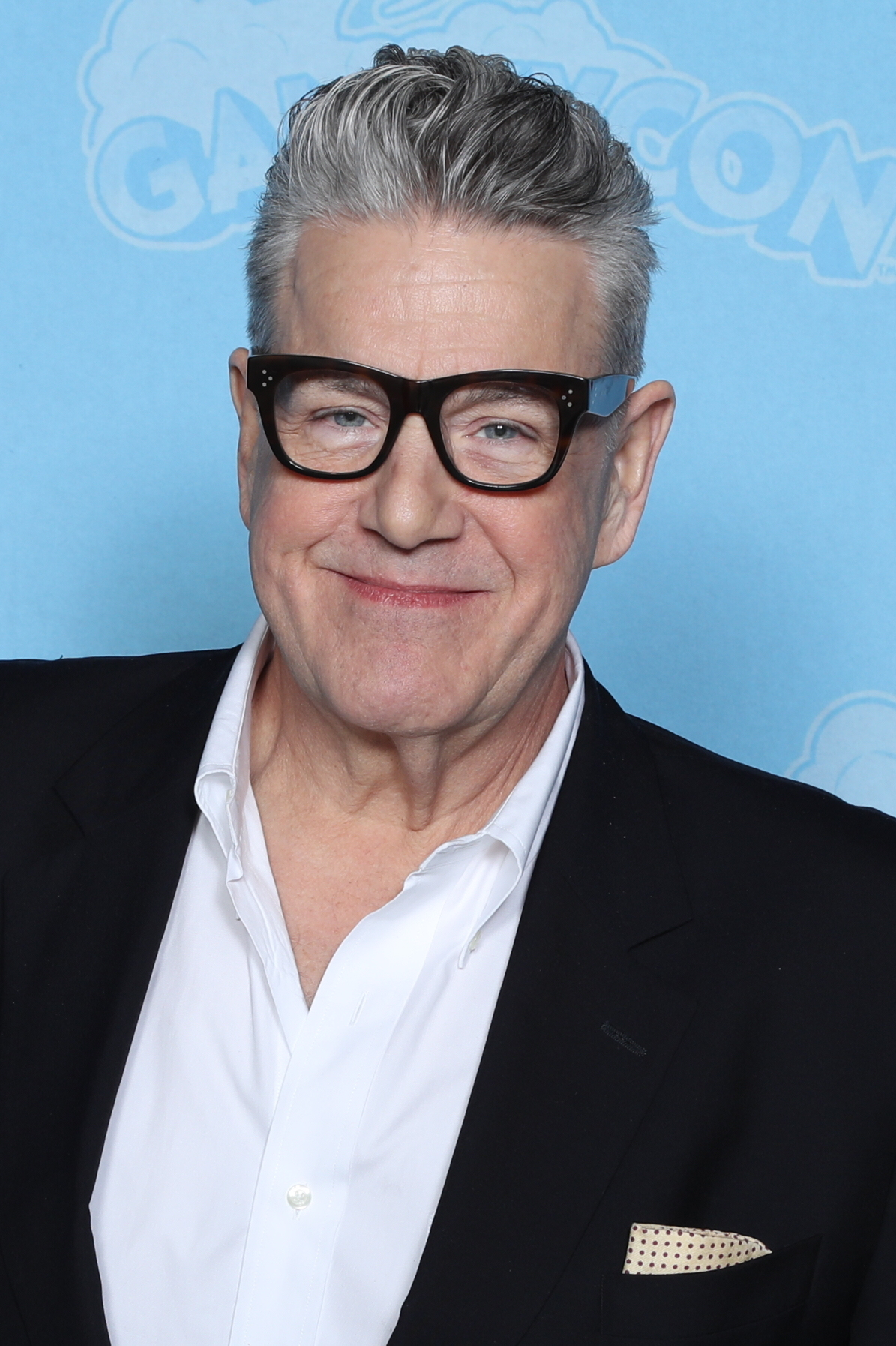 Jonathan Freeman at GalaxyCon Richmond in 2020